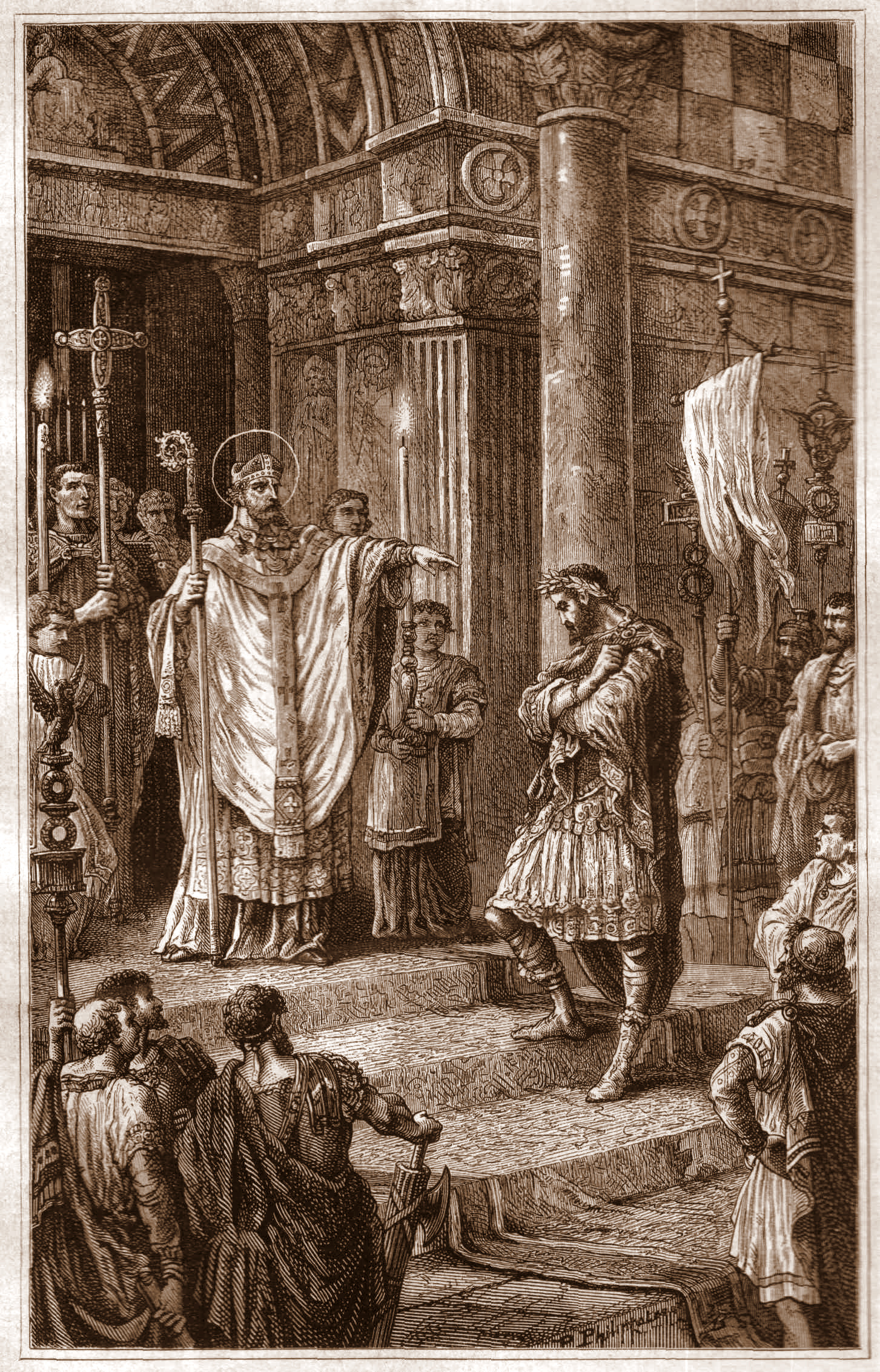 Saint Ambrose of Milano and emperor Theodosius I